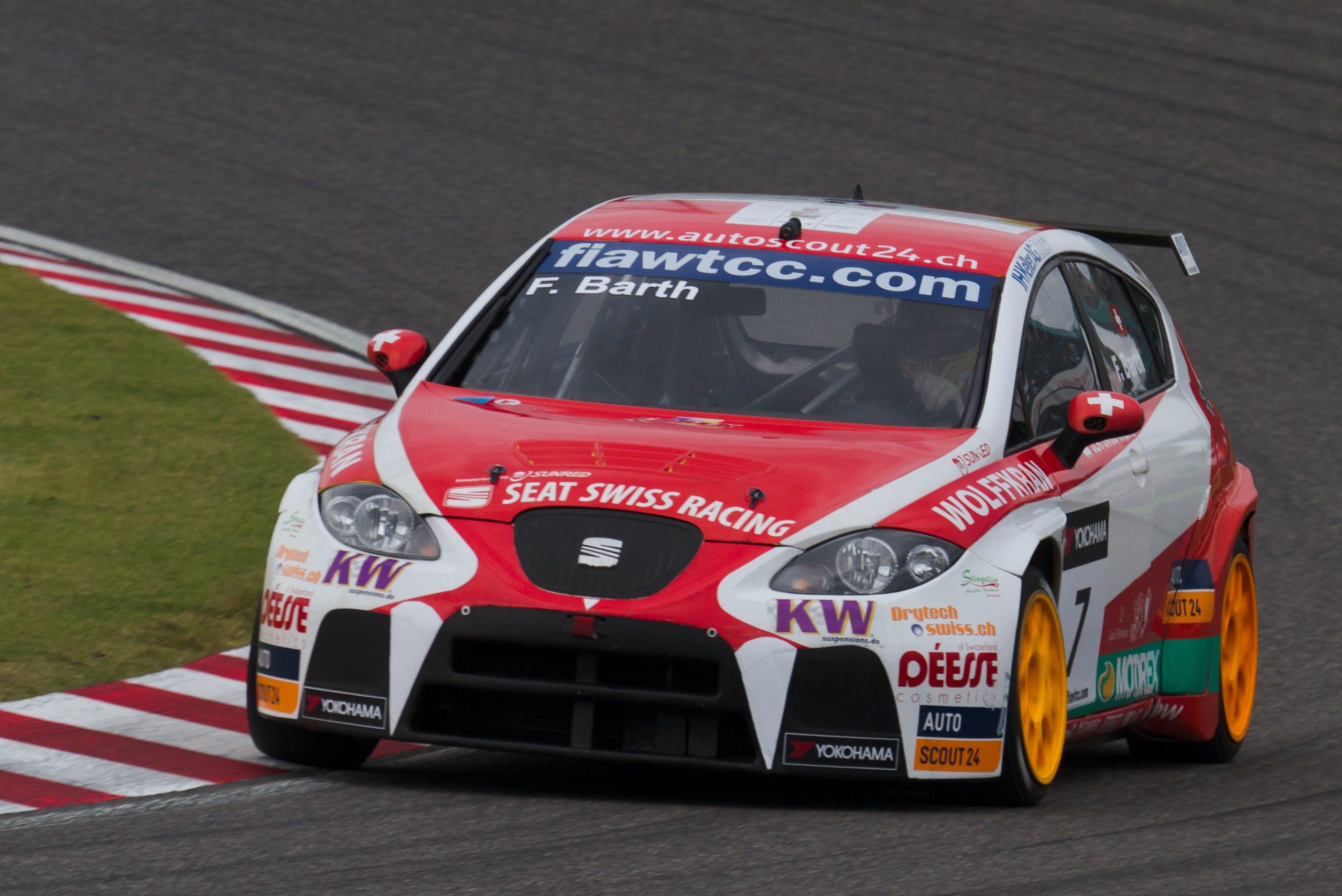 World Touring Car Championship 2011 Race of Japan: Fredy Barth (SEAT Swiss Racing by SUNRED) during the qualify session on Saturday.